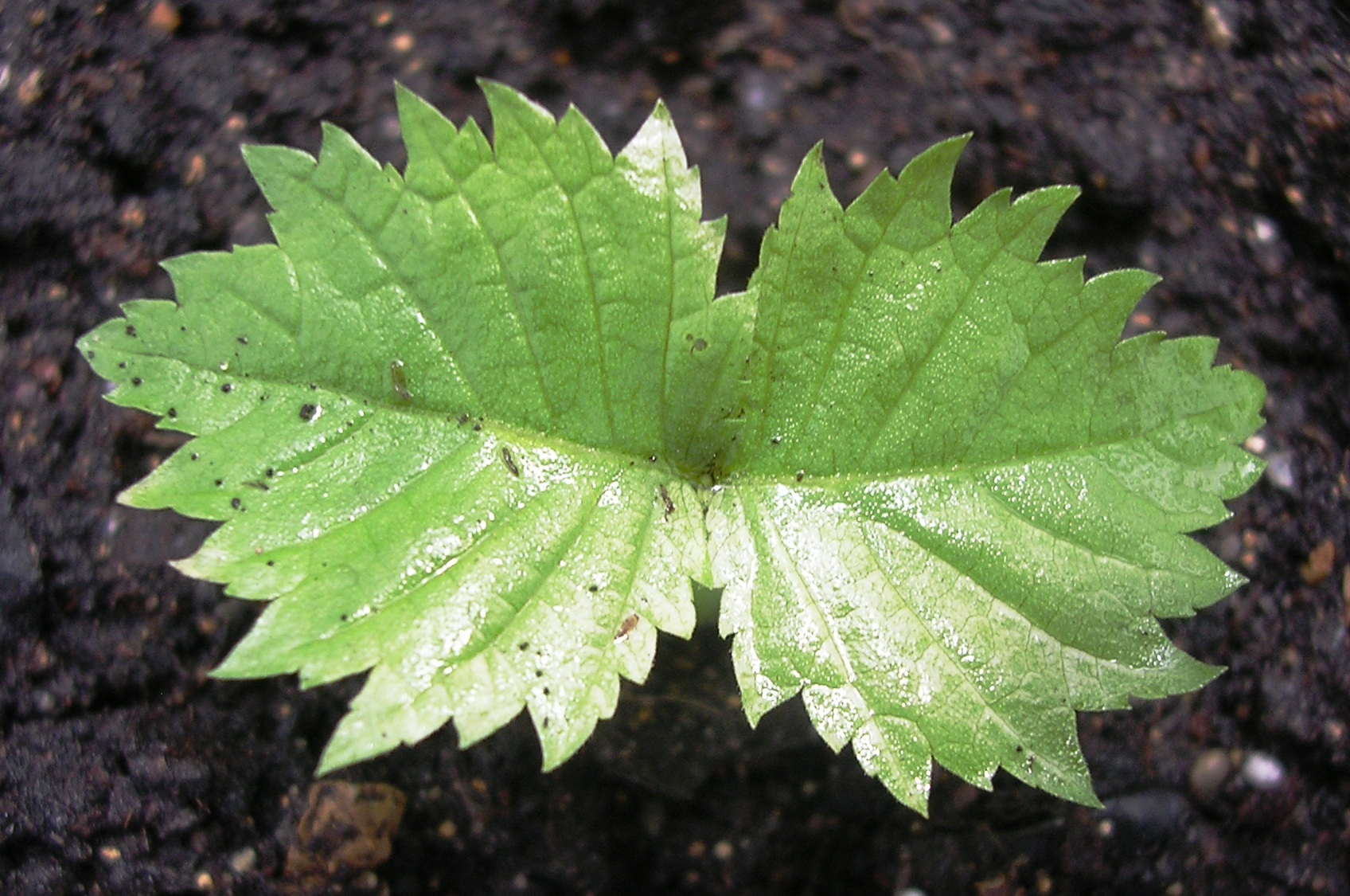 Photo of seedling of Rock Elm taken by author.